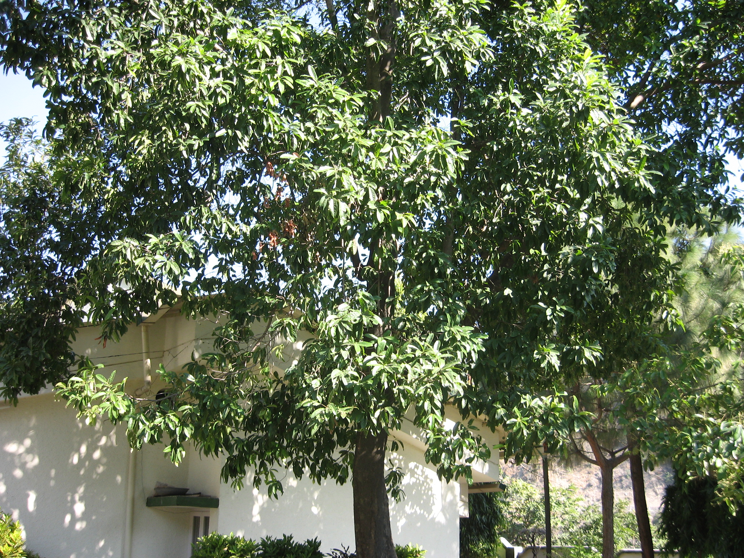 Taken by myself Kapil Subramanian, not copyrighted and free for use. Taken at Rishikesh